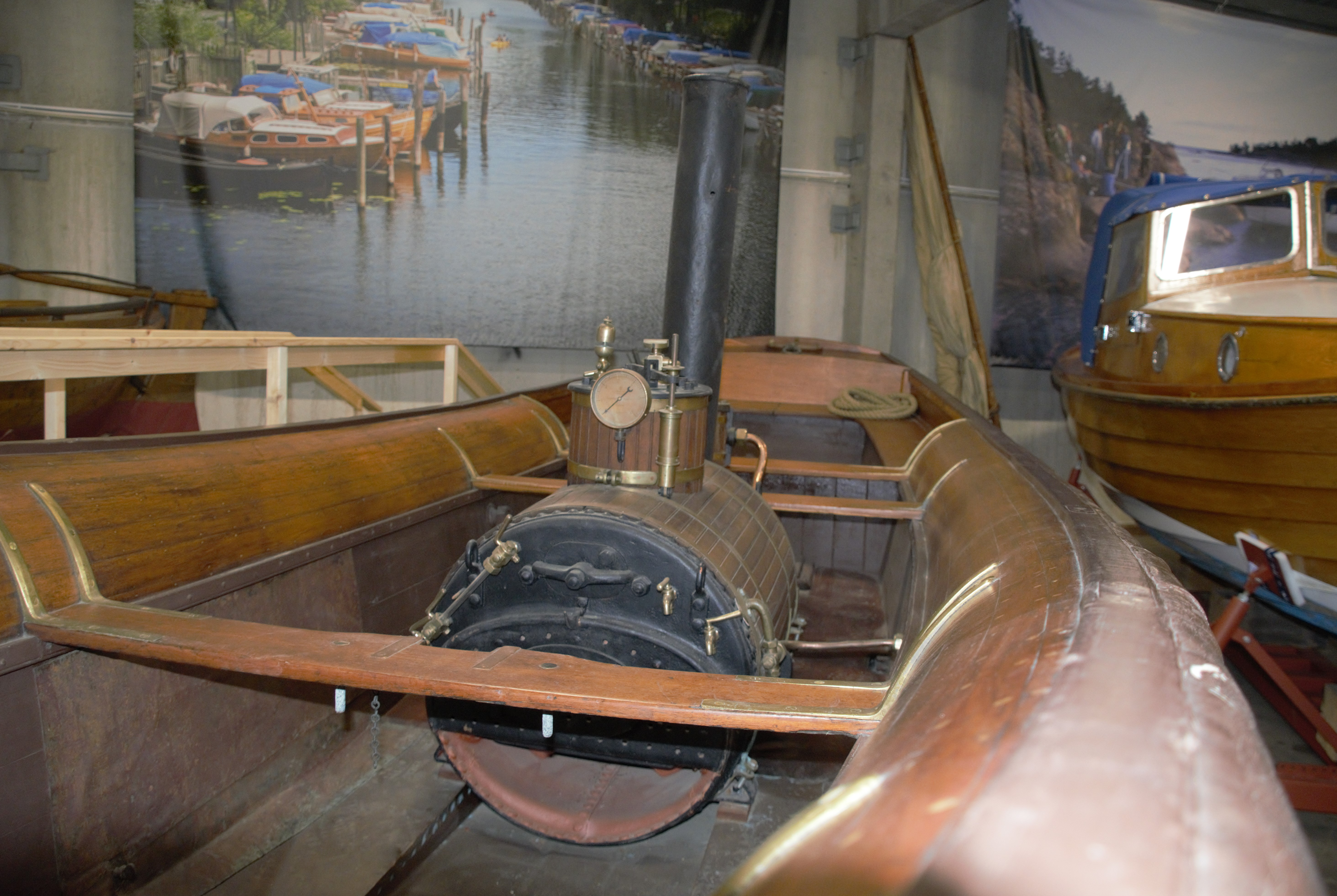 Steam life boat of polar ship Vega at Sjöhistoriska museet, Rindö, Sweden